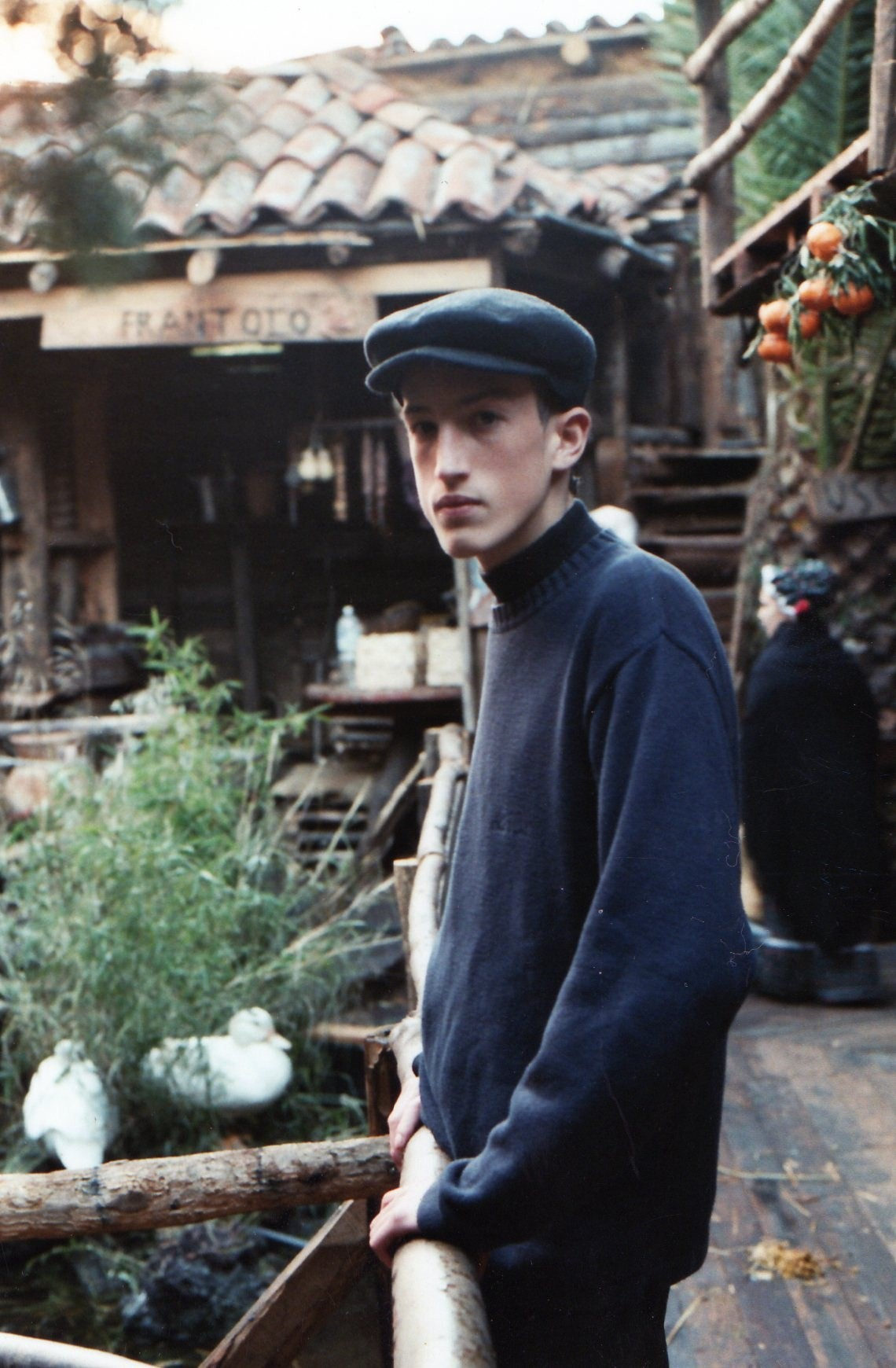 Boy in Sicilian costume of the 1880s